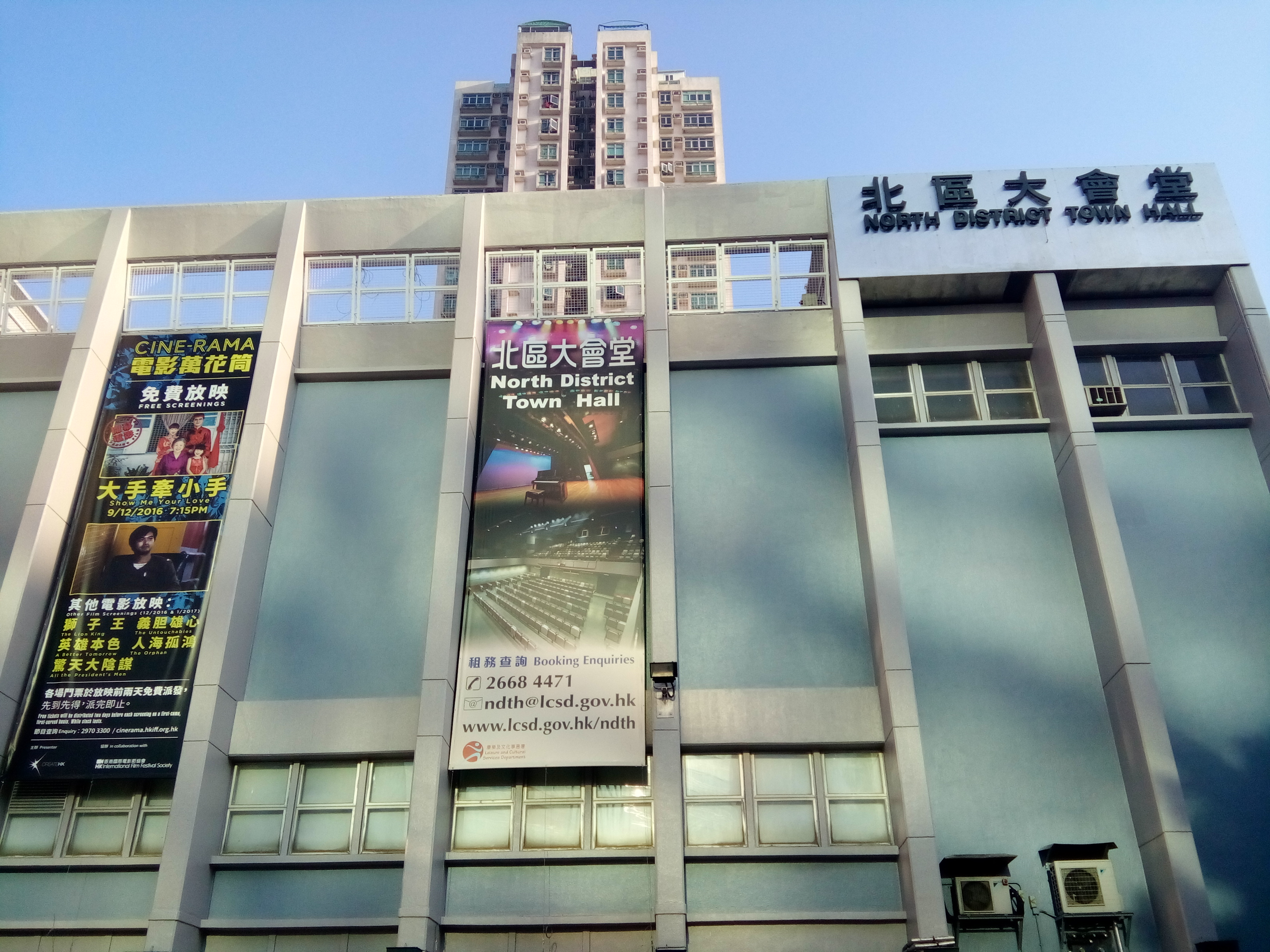 北區大會堂, North District Town Hall, San Wan Road, Sheung Shui, Hong Kong